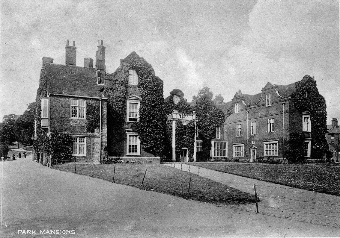 Scanned from postcard in uploader's ownership